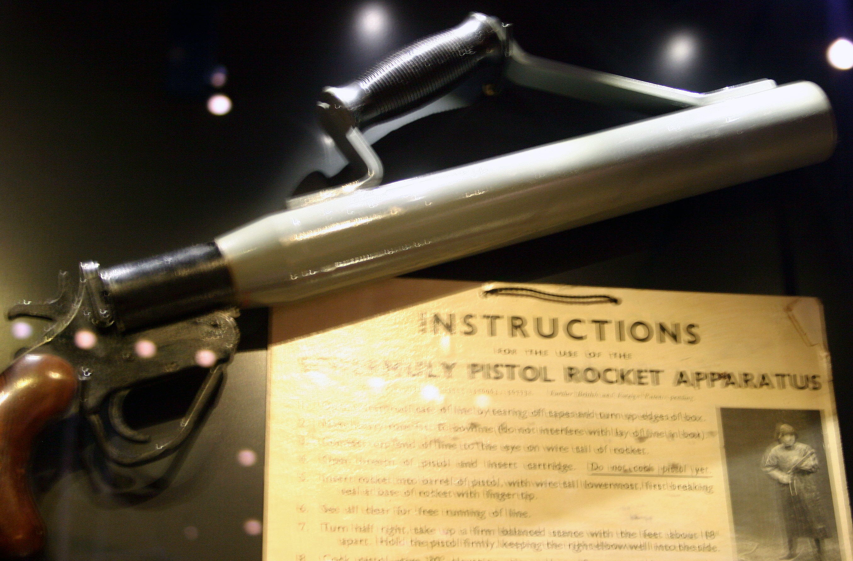 A line throwing rifle